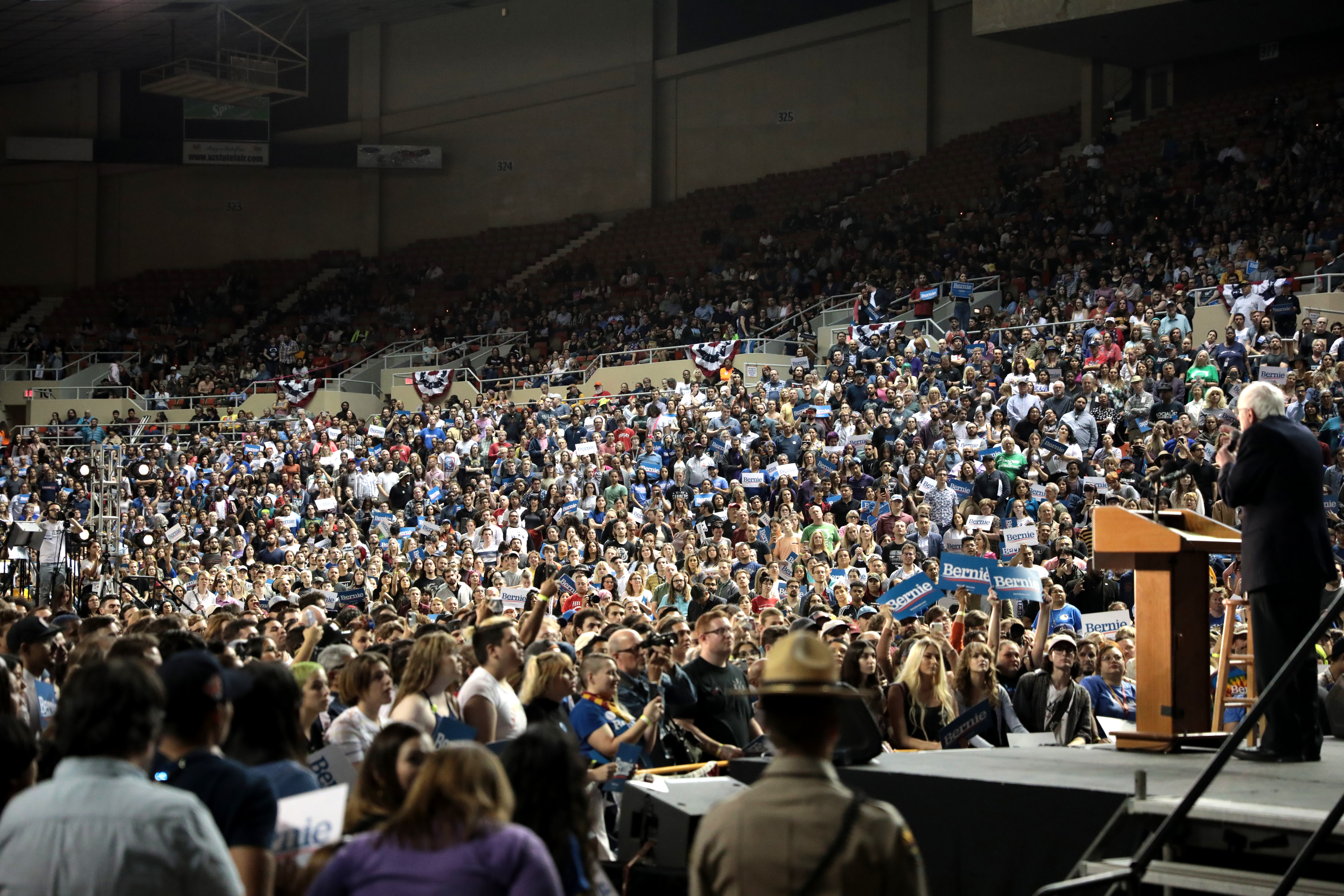 U.S. Senator Bernie Sanders speaking with supporters at a campaign rally at Arizona Veterans Memorial Coliseum in Phoenix, Arizona.